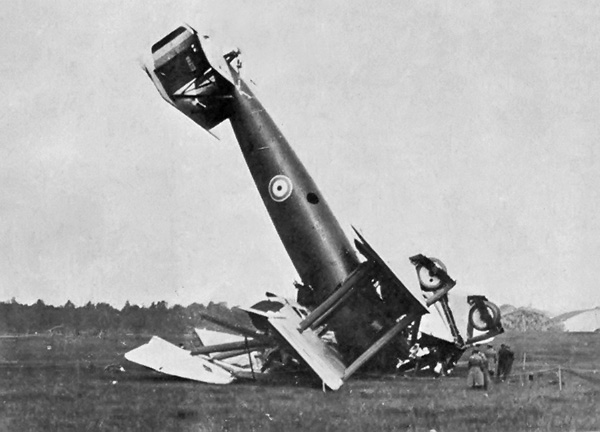 The sole Tarrant Tabor F1765 pictured after its crash in 1919.